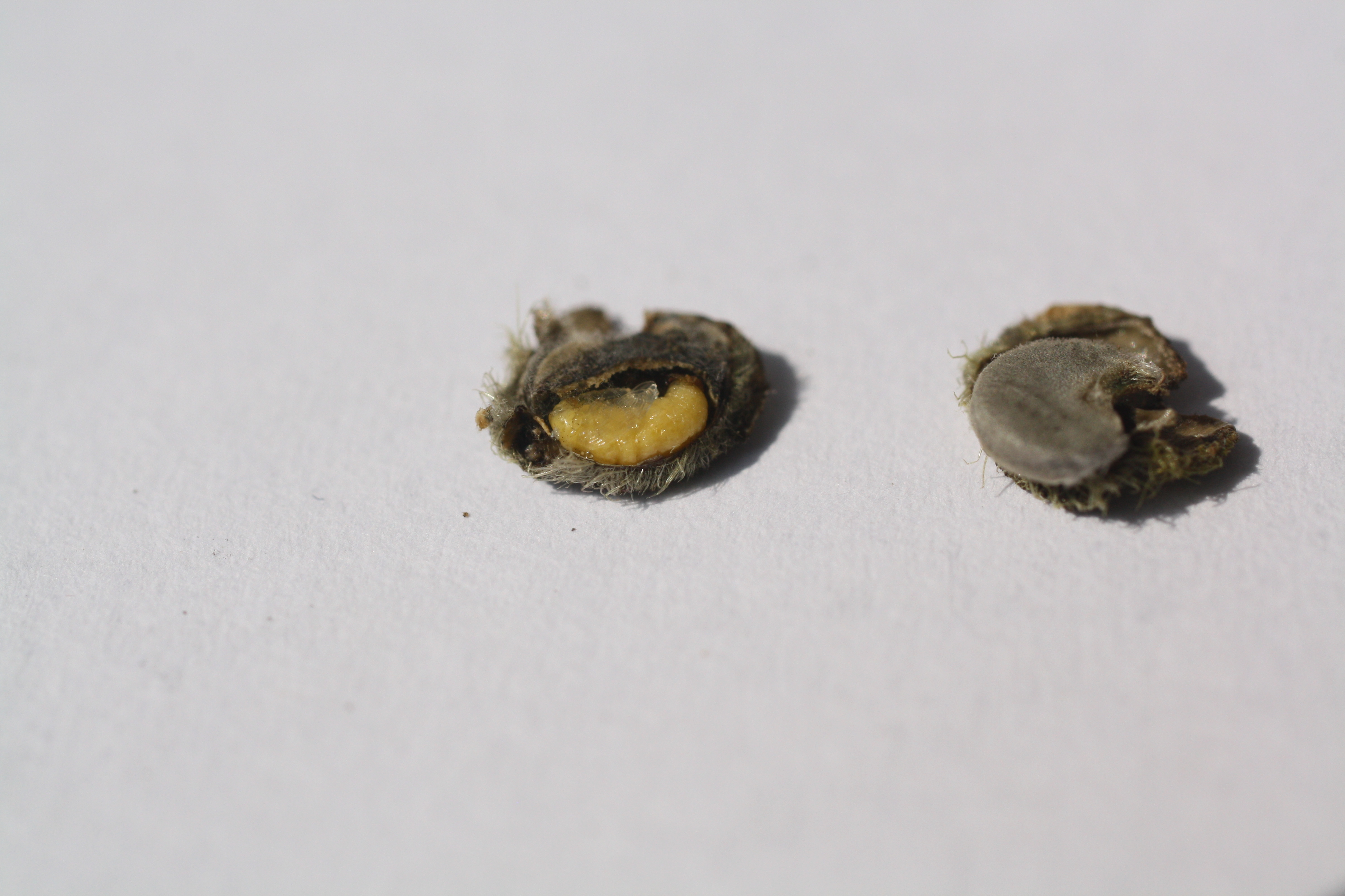 Two opened hollyhock seeds. Left: Seed with grub inside, right: with seed